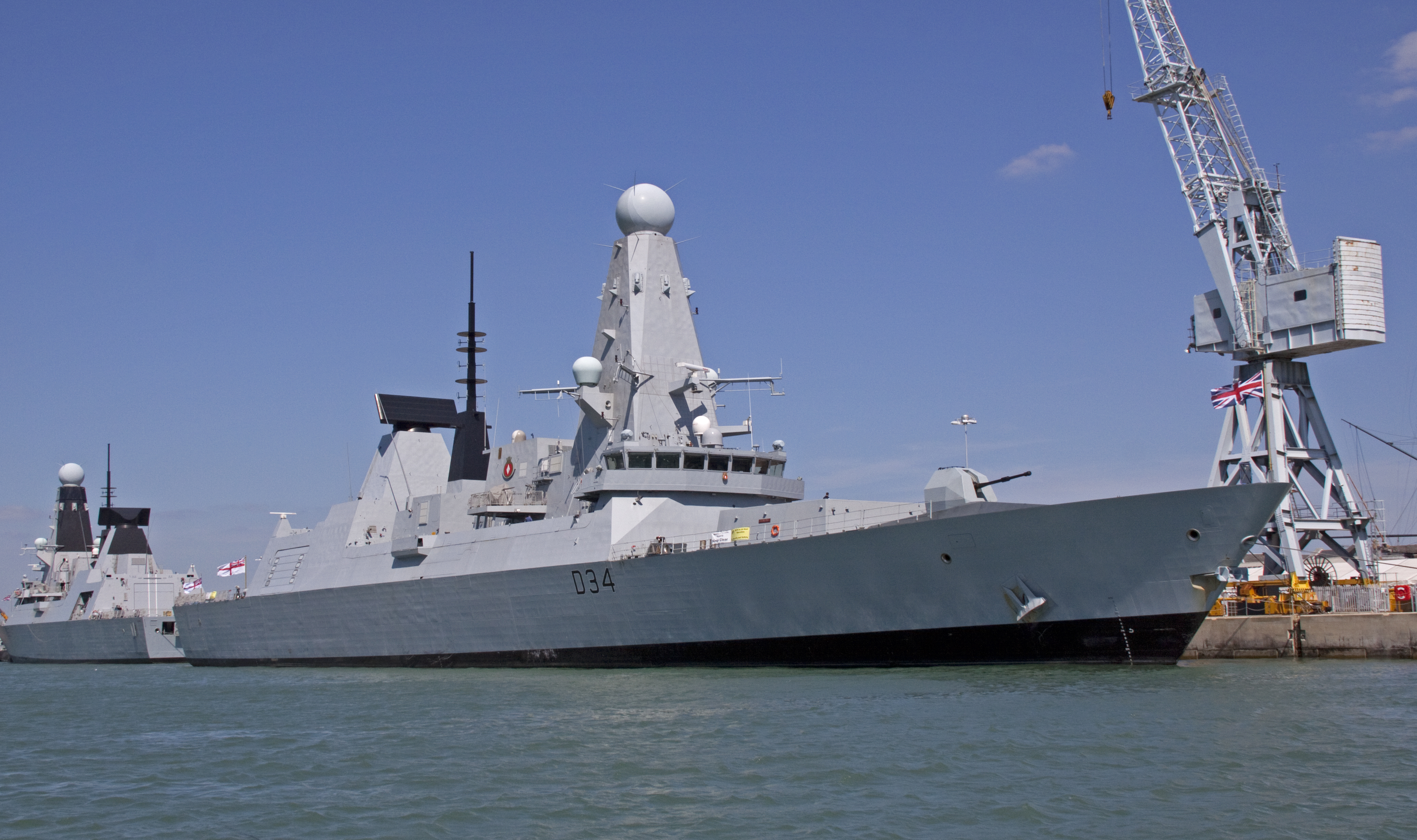 HMS Diamond D34